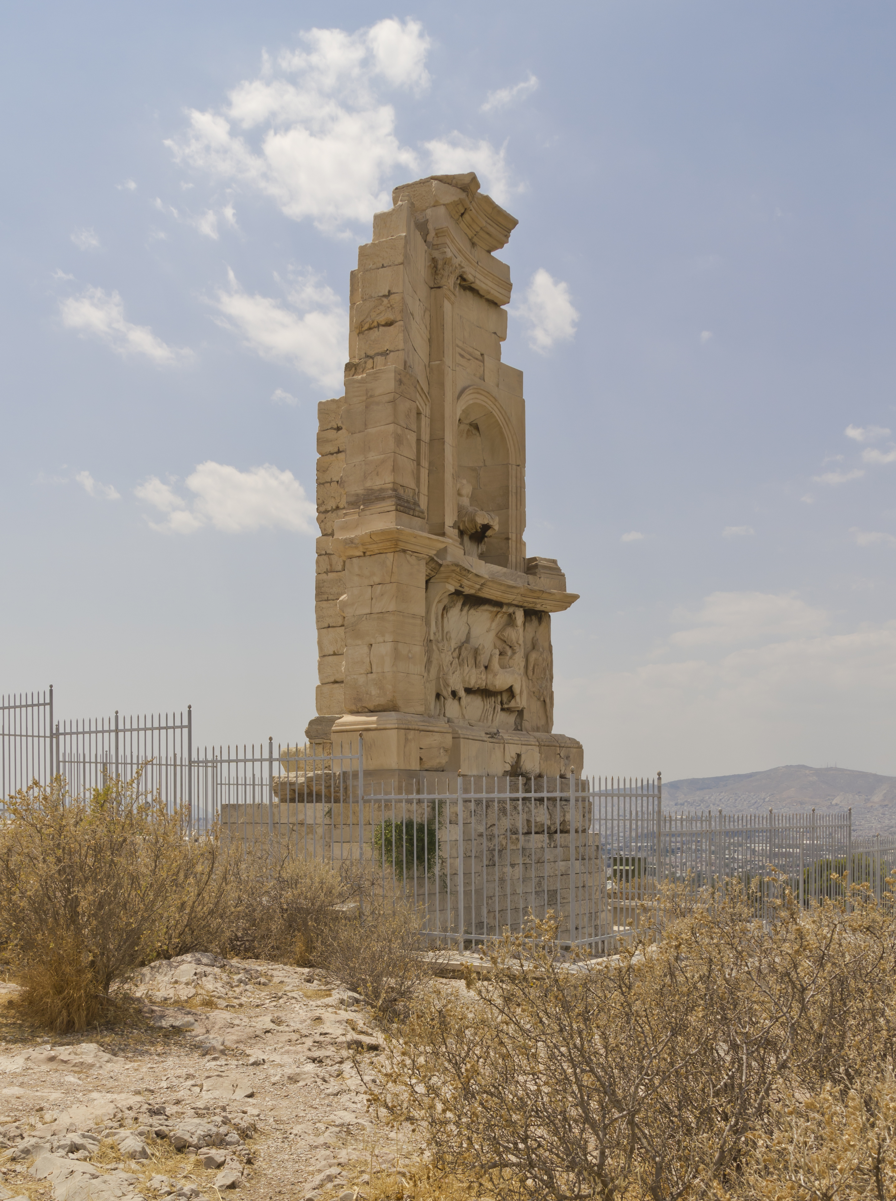 Philopappos Hill in Athens (Attica, Greece) — the monument, front view